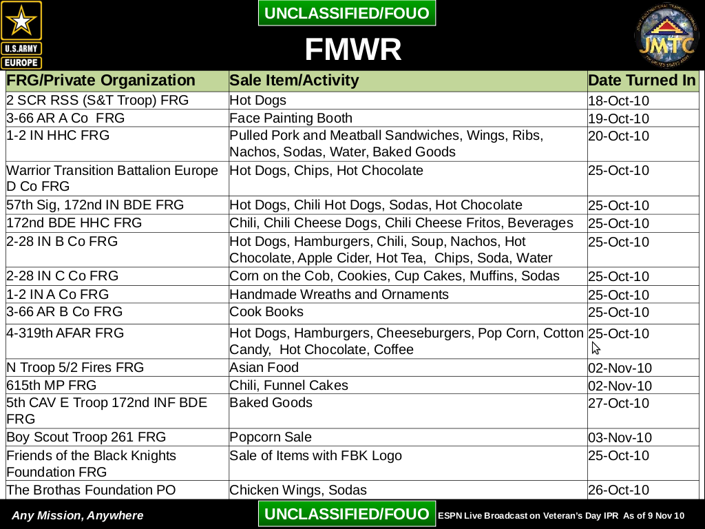 menu, part of an unclassified fouo document for US Army Europe, planning for Veterans Day events.